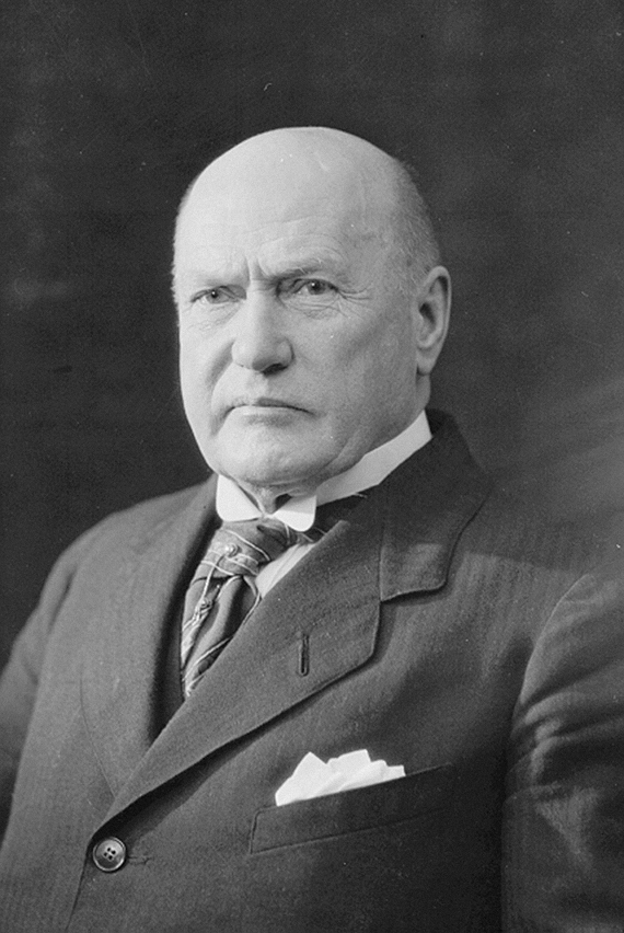 The Norwegian engineer, businessman, politician and head of the Norwegian skating organisation, Arthur Motzfeldt (1855–1928)